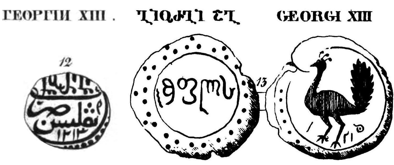 Coins in Georgia during Georgi XIII